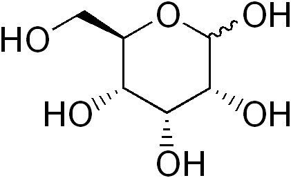 chemical structure of allose